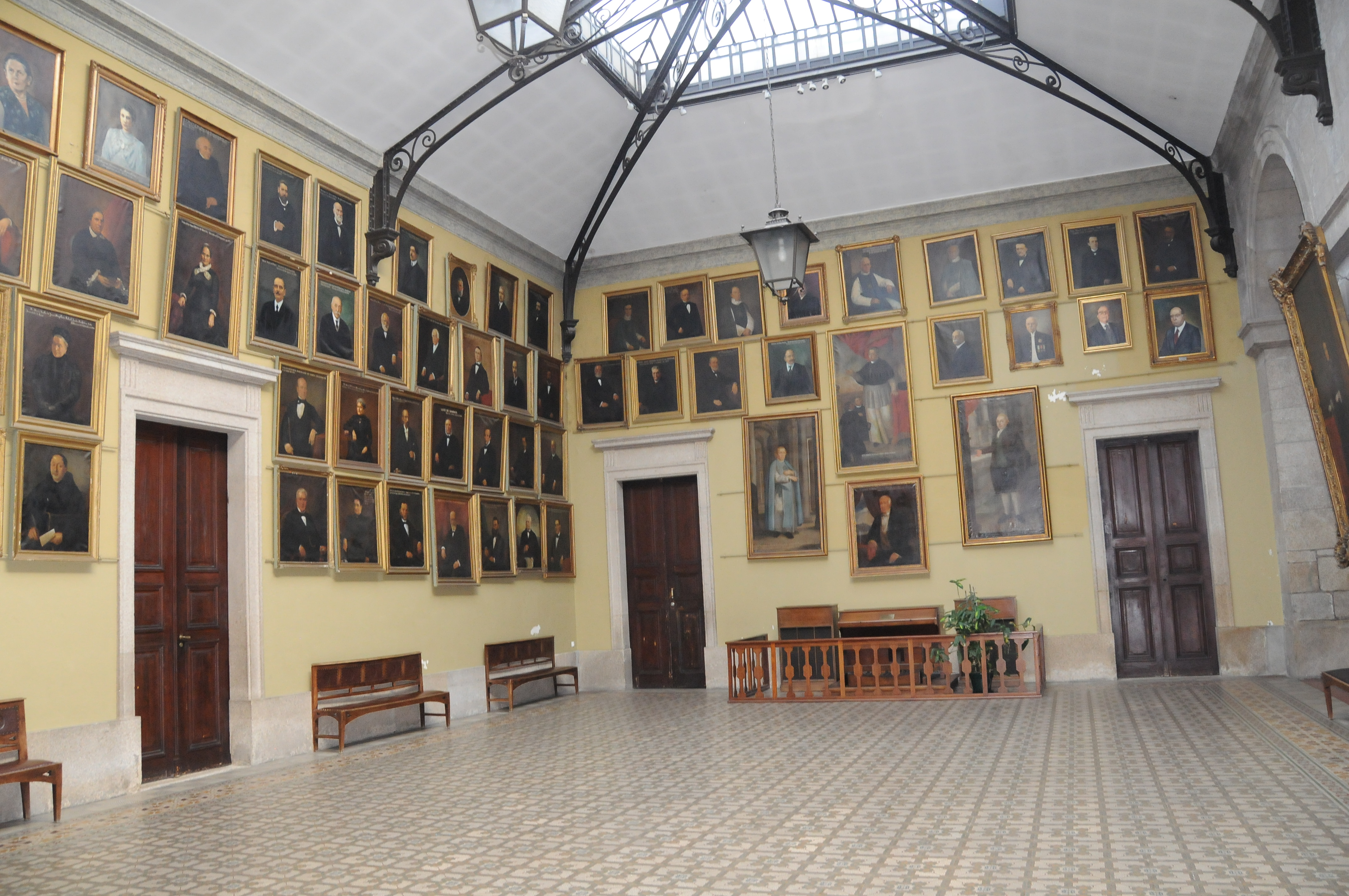 Church of Lapa, Porto, Portugal.